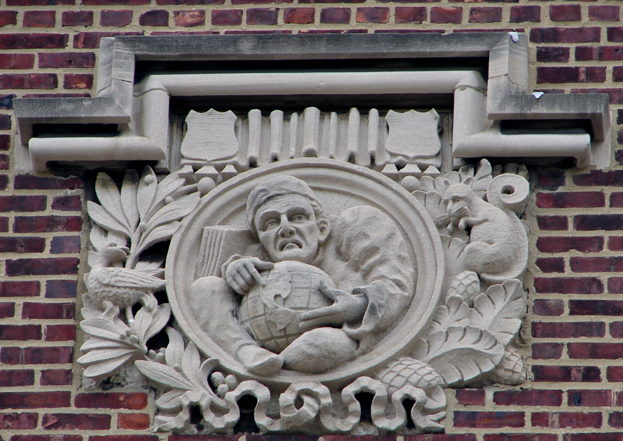 Relief on Gen. David B. Birney School in Philadelphia on the NRHP since November 18, 1988. At 900 West Lindley Street in the neighborhood of Logan in North Philly. Named after Union Civil War General buried in The Woodlands, Philadelphia.